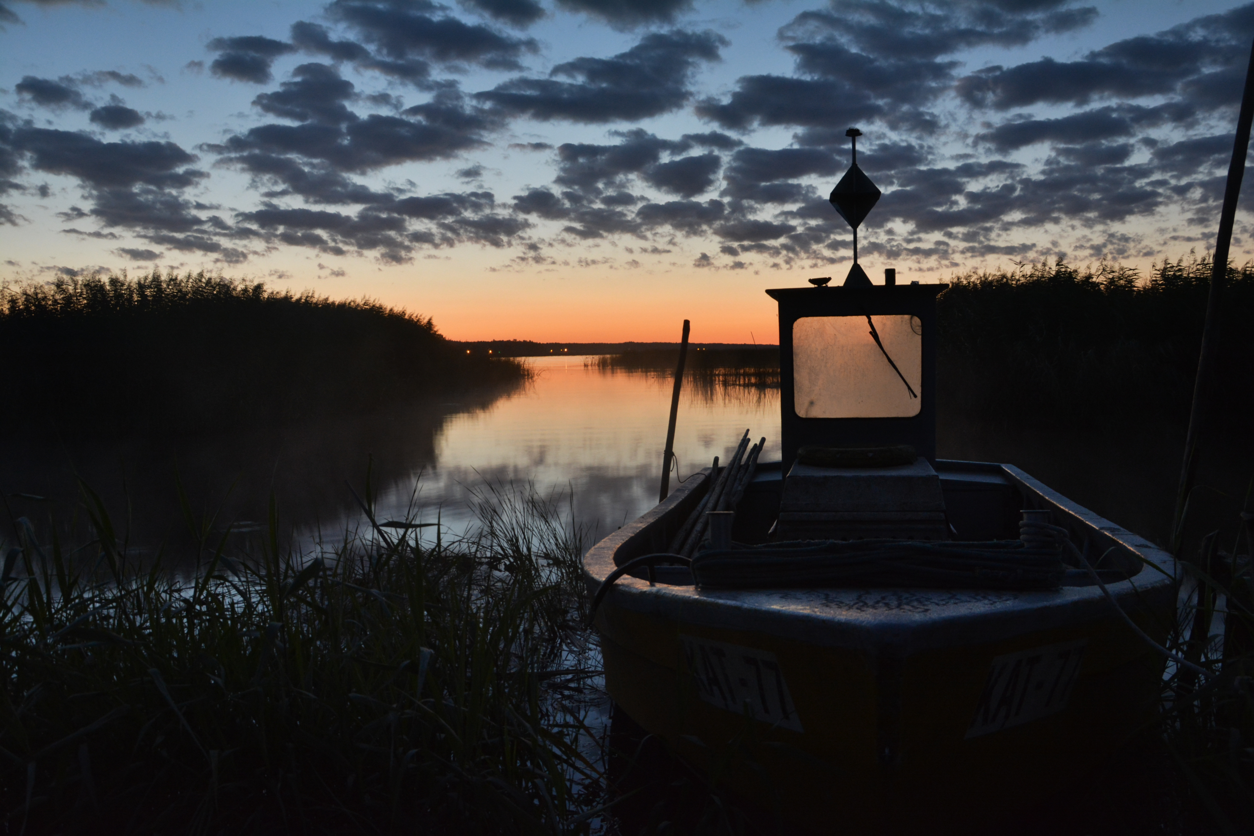 Sunrise over the old fishing port on the Vistula Lagoon in Kąty Rybackie. Vistula Spit, Poland. This is a photography of protected area with CRFOP ID PL.ZIPOP.1393.N2K.PLH280007.H